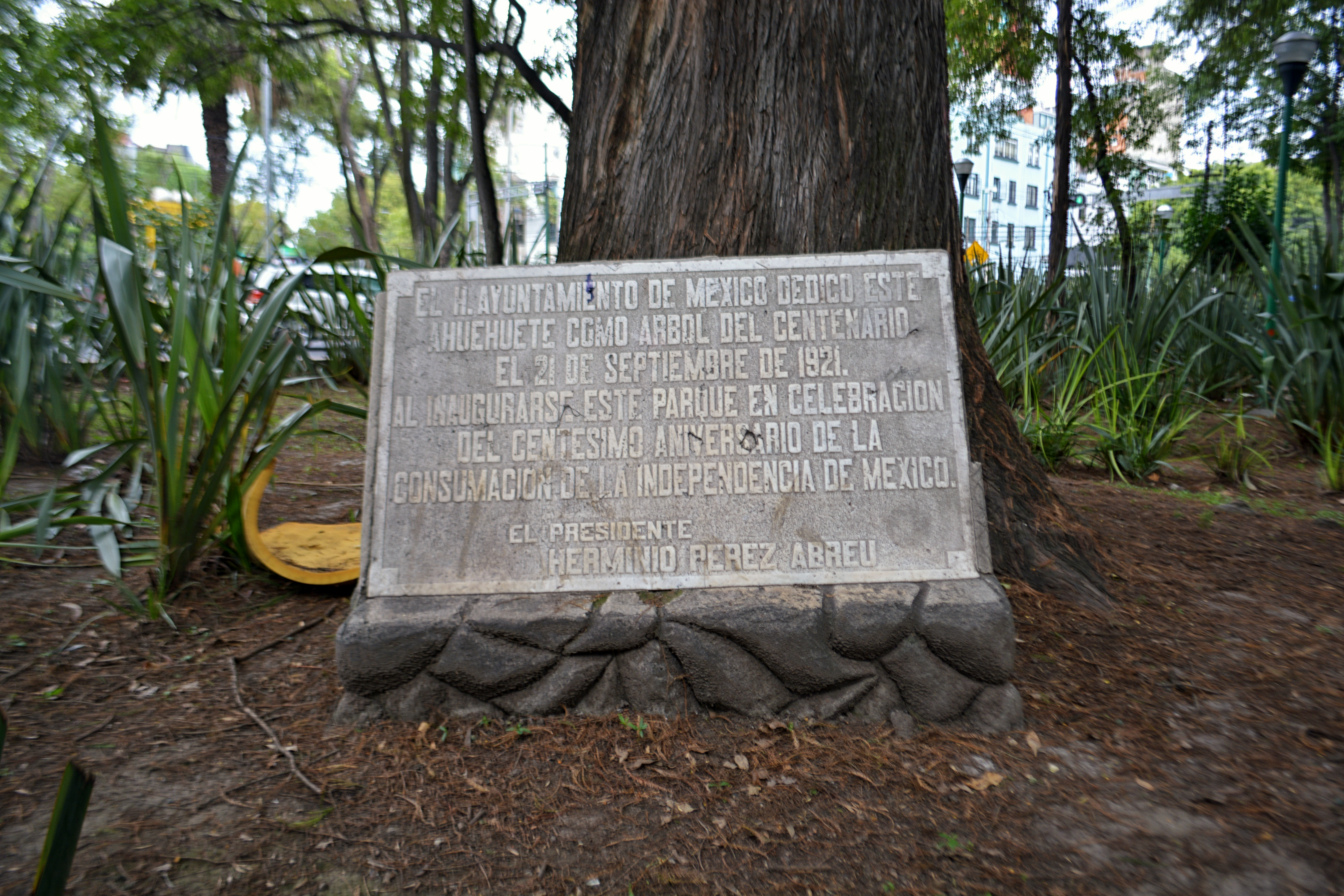 Park inaugural plaque, Parque España, Mexico City.